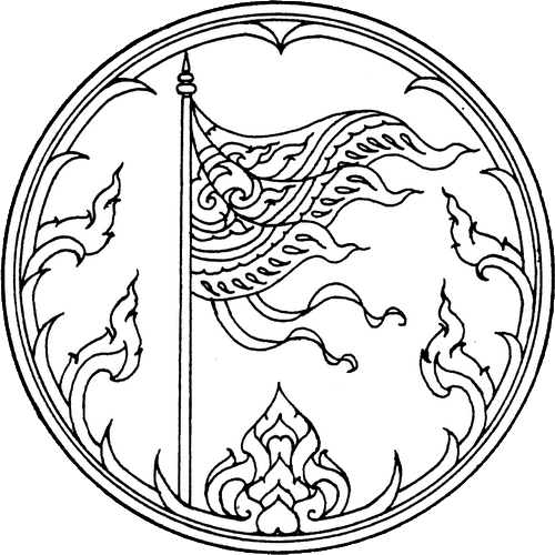 Provincial seal of Chaiyaphum province.